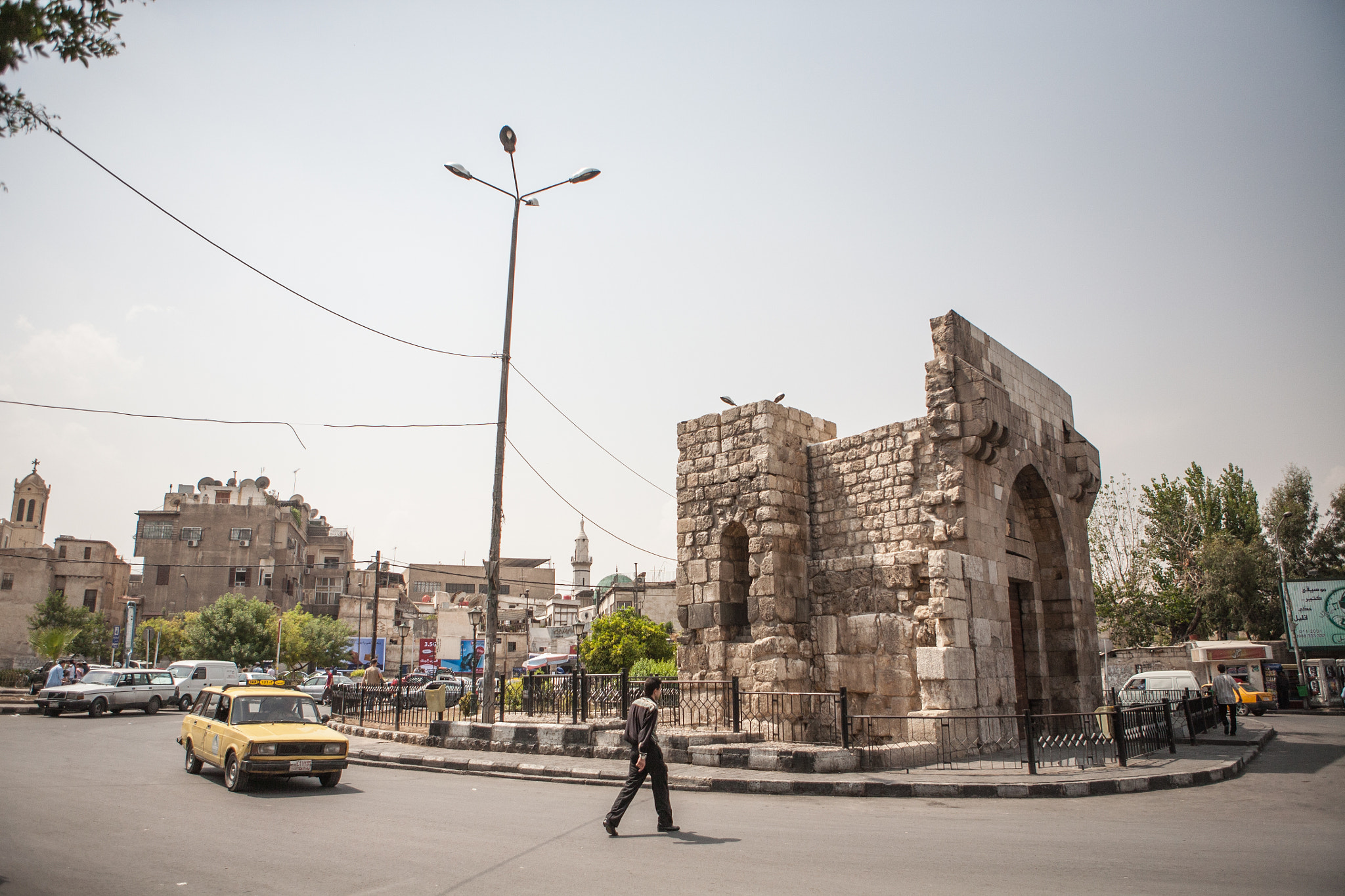 500px provided description: Christians In Syria